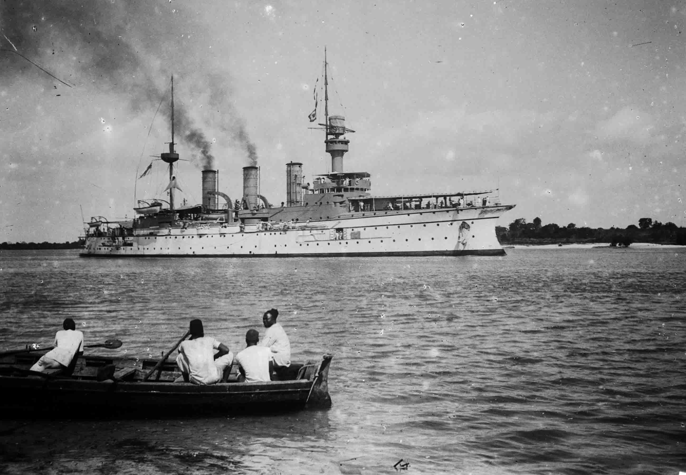 Big Cruiser SMS Hertha in the Harbour of Dar es Salaam, German East Africa.